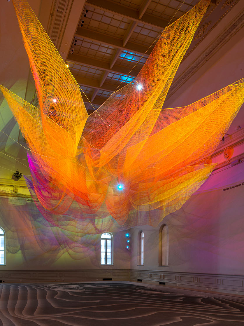 Photograph of the Smithsonian American Art Museum's Renwick Gallery, with the soft sculpture "1.8 Renwick," by Janet Echelman, installed in the museum's Grand Salon.